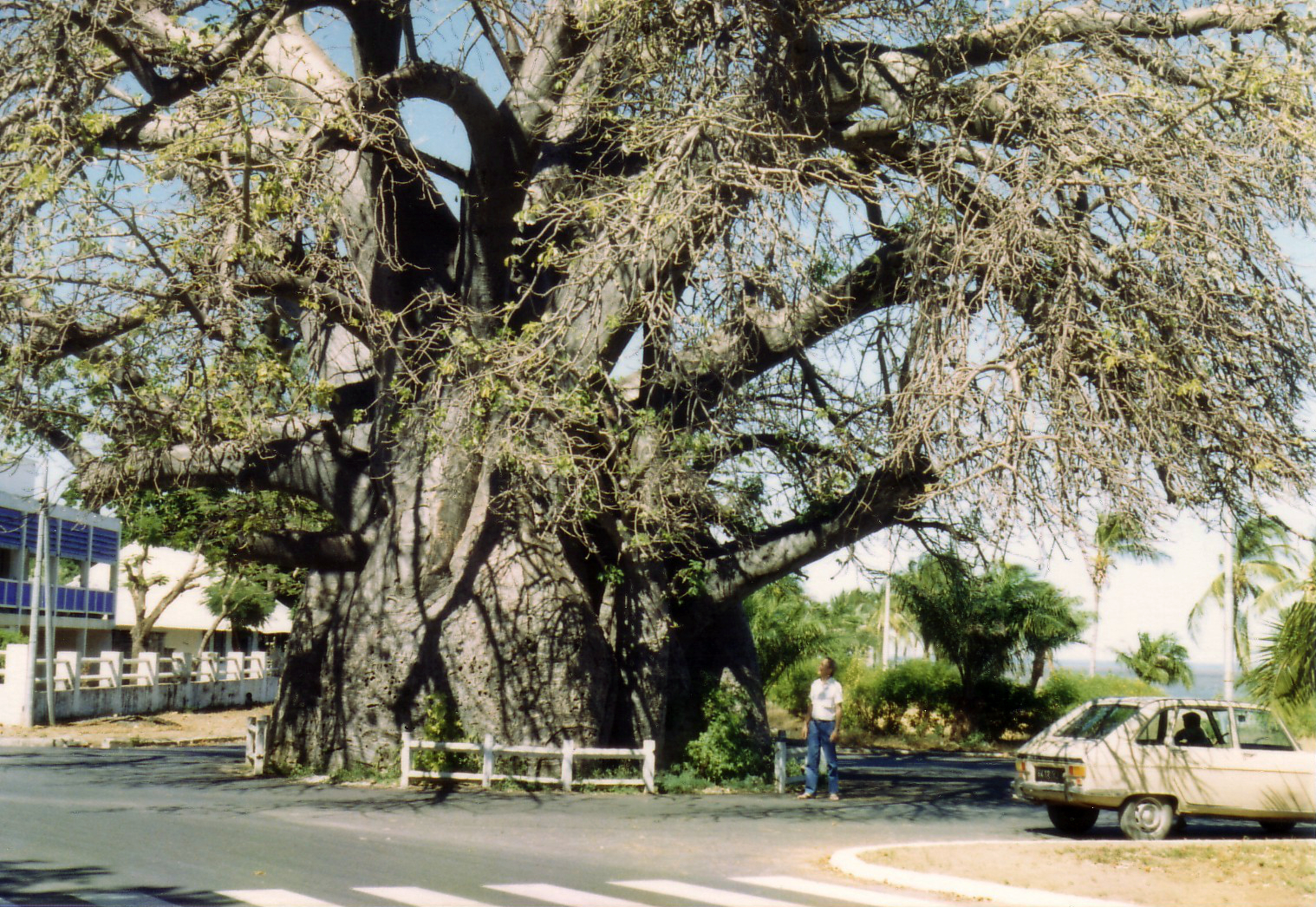 Baobab (Adansonia madagascariensis) at Majunga, Madagascar